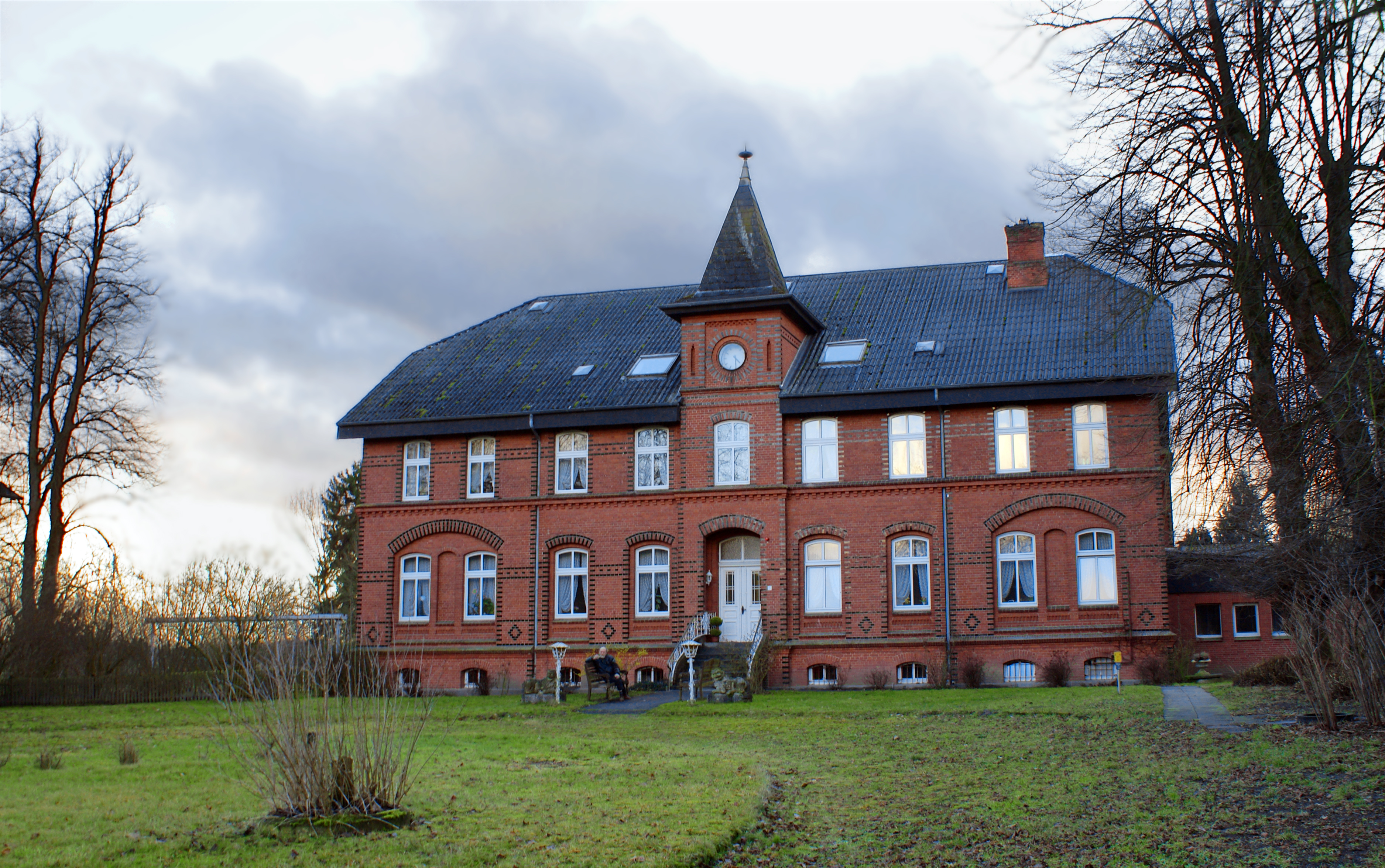 so called Traventhal Manor